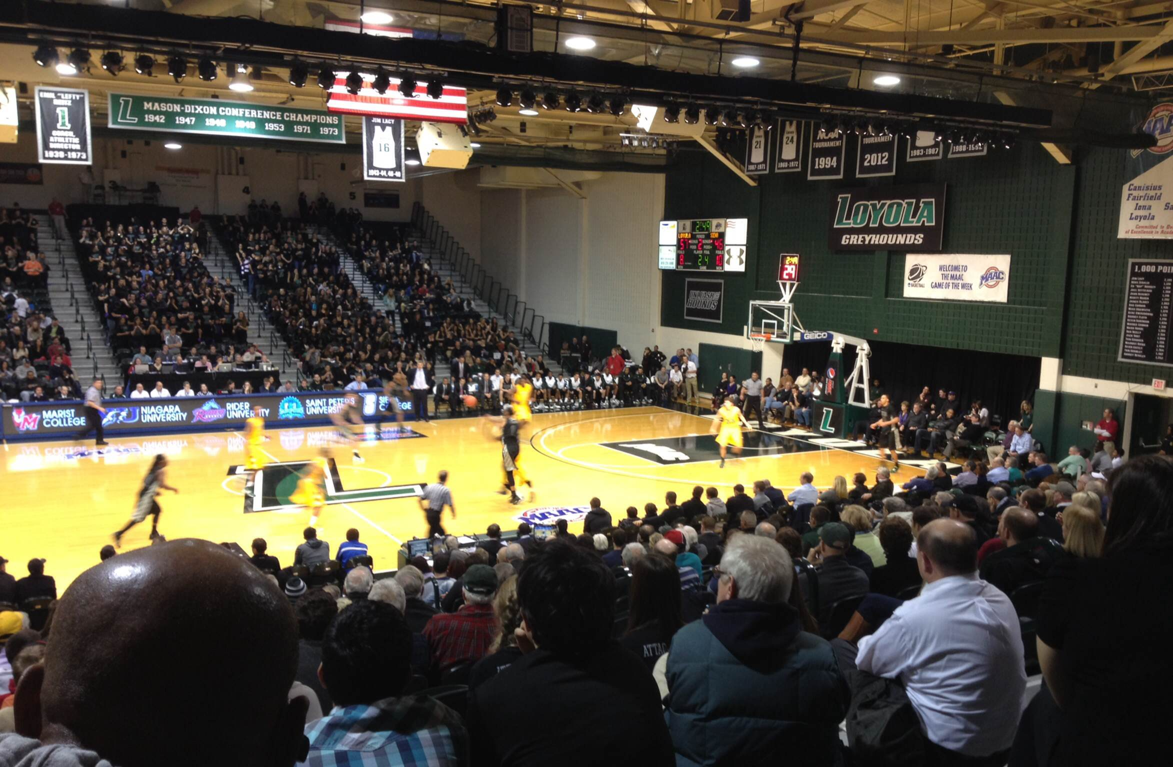 Home game at Reitz Arena